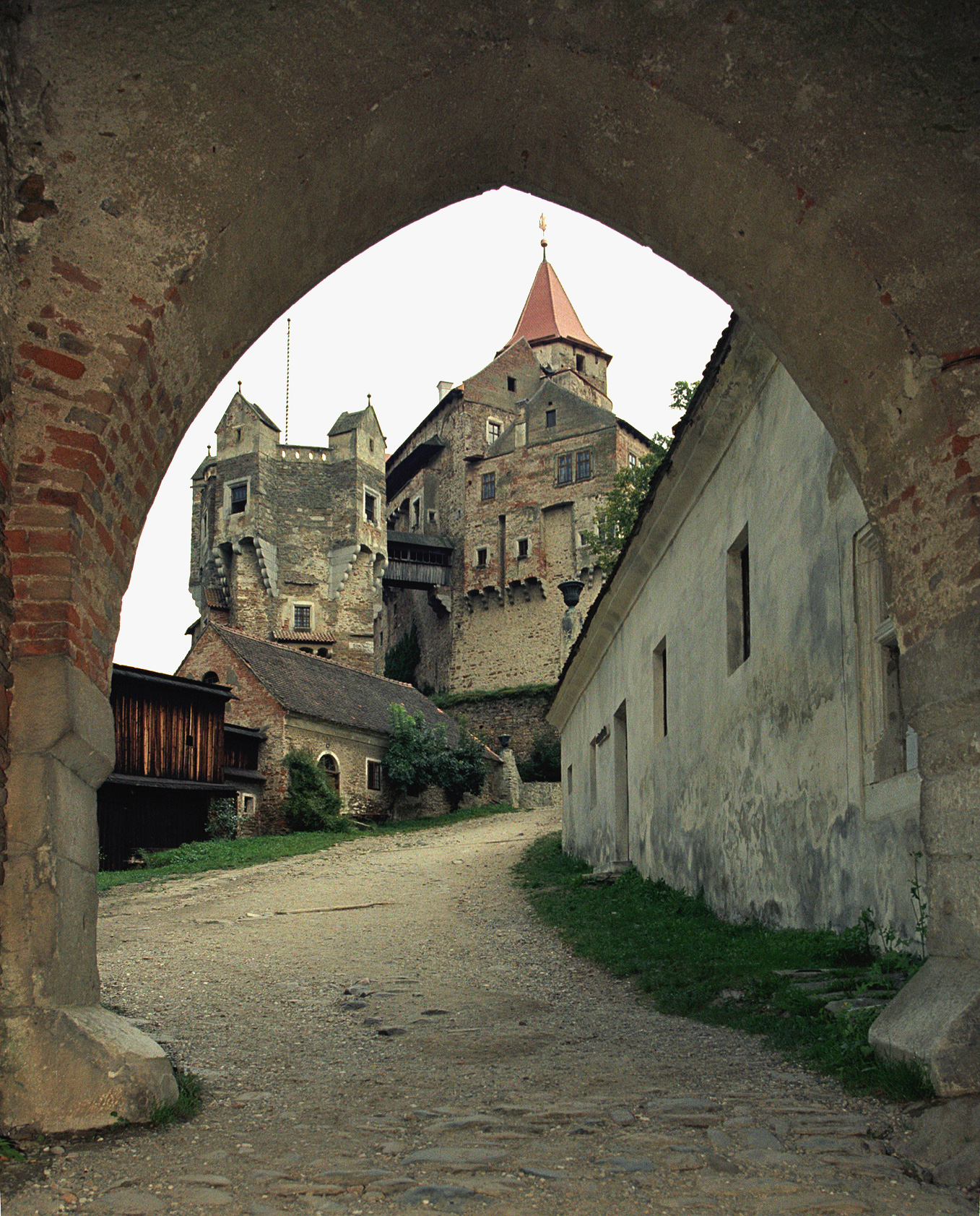 Pernstejn Castle